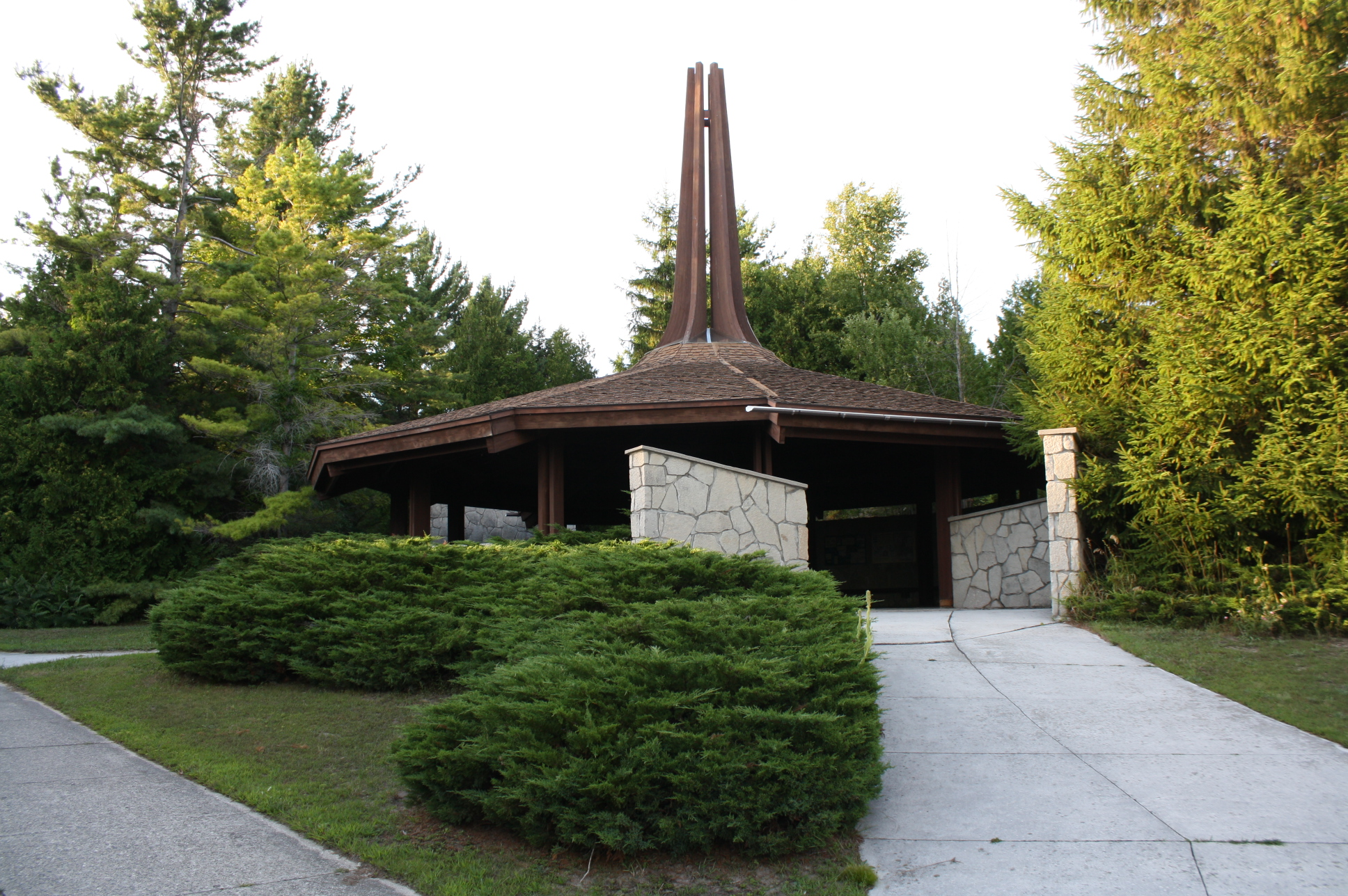 The monument building at the Father Marquette National Memorial.